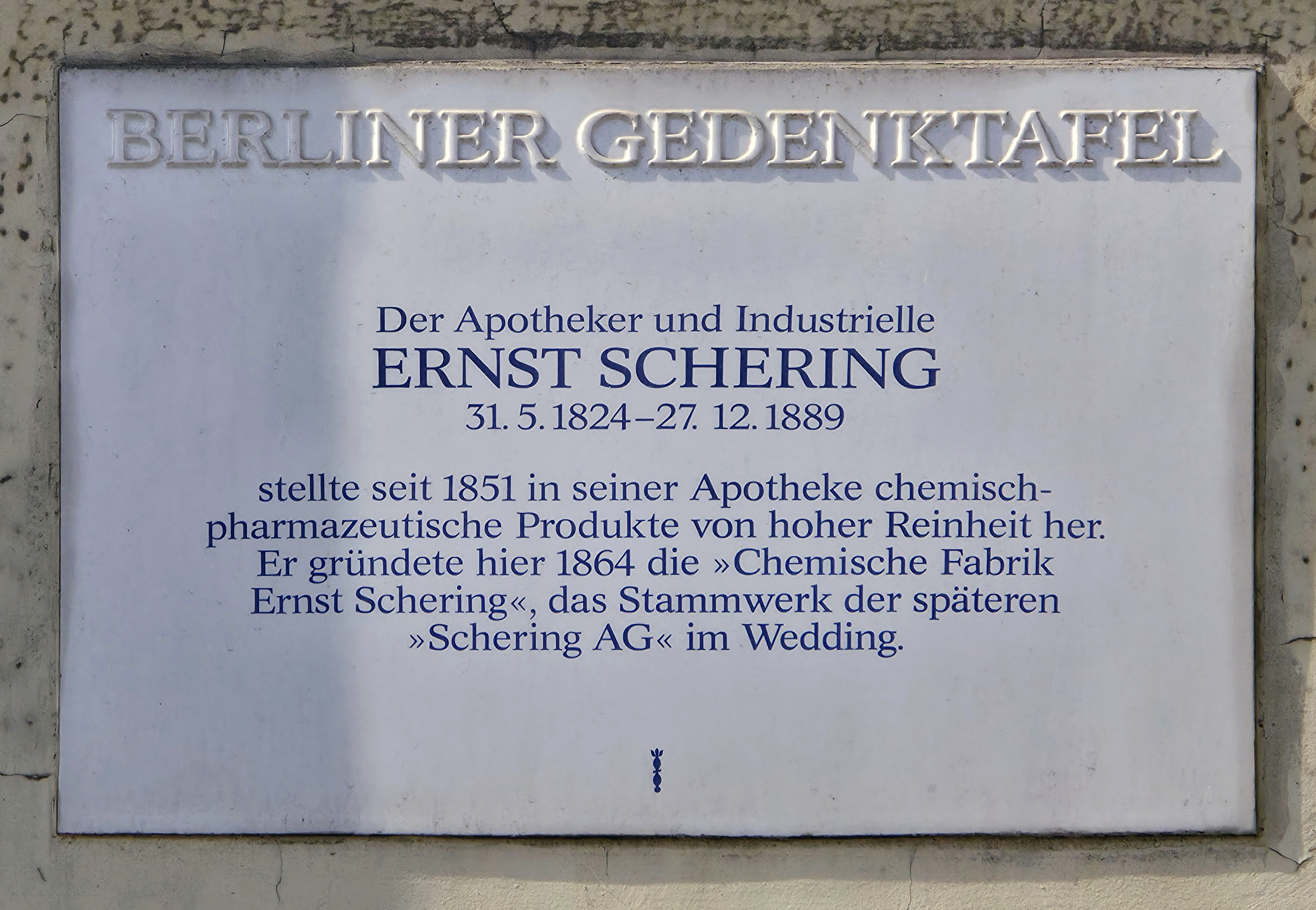 Berlin memorial plaque, Ernst Christian Friedrich Schering, Müllerstraße 170, Berlin-Wedding, Germany